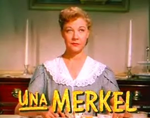 Cropped screenshot of Una Merkel from the trailer for the film I Love Melvin.